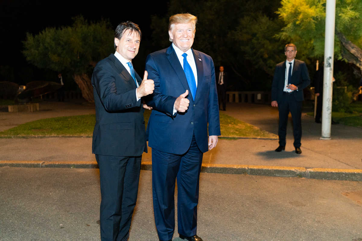 President Donald J. Trump poses for a photo with Italian Prime Minister Giuseppe Conte at the G7 Leaders’ Dinner Saturday evening Aug. 24, 2019, at the Biarritz Lighthouse in Biarritz, France. (Official White House Photo by Shealah Craighead)